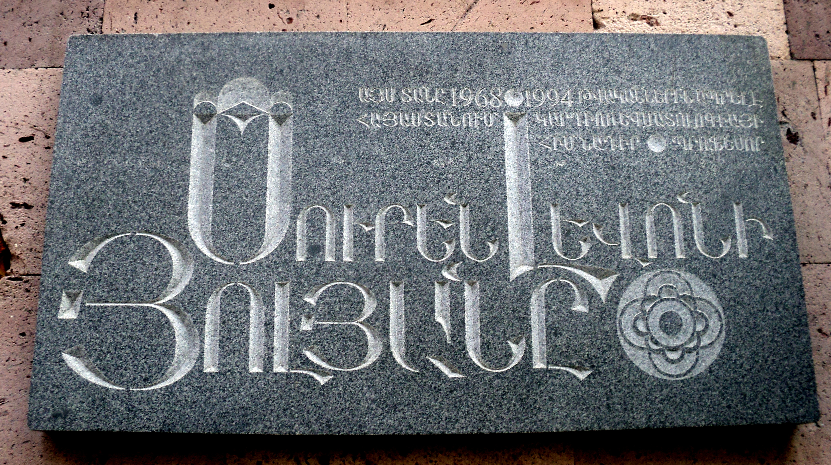 Suren Yolyan's plaque